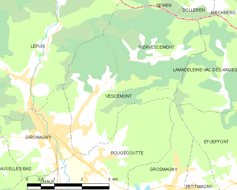 Map of French municipality Vescemont